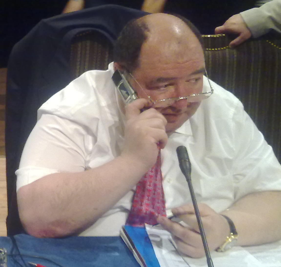 Boris Spiegel, Russian senator